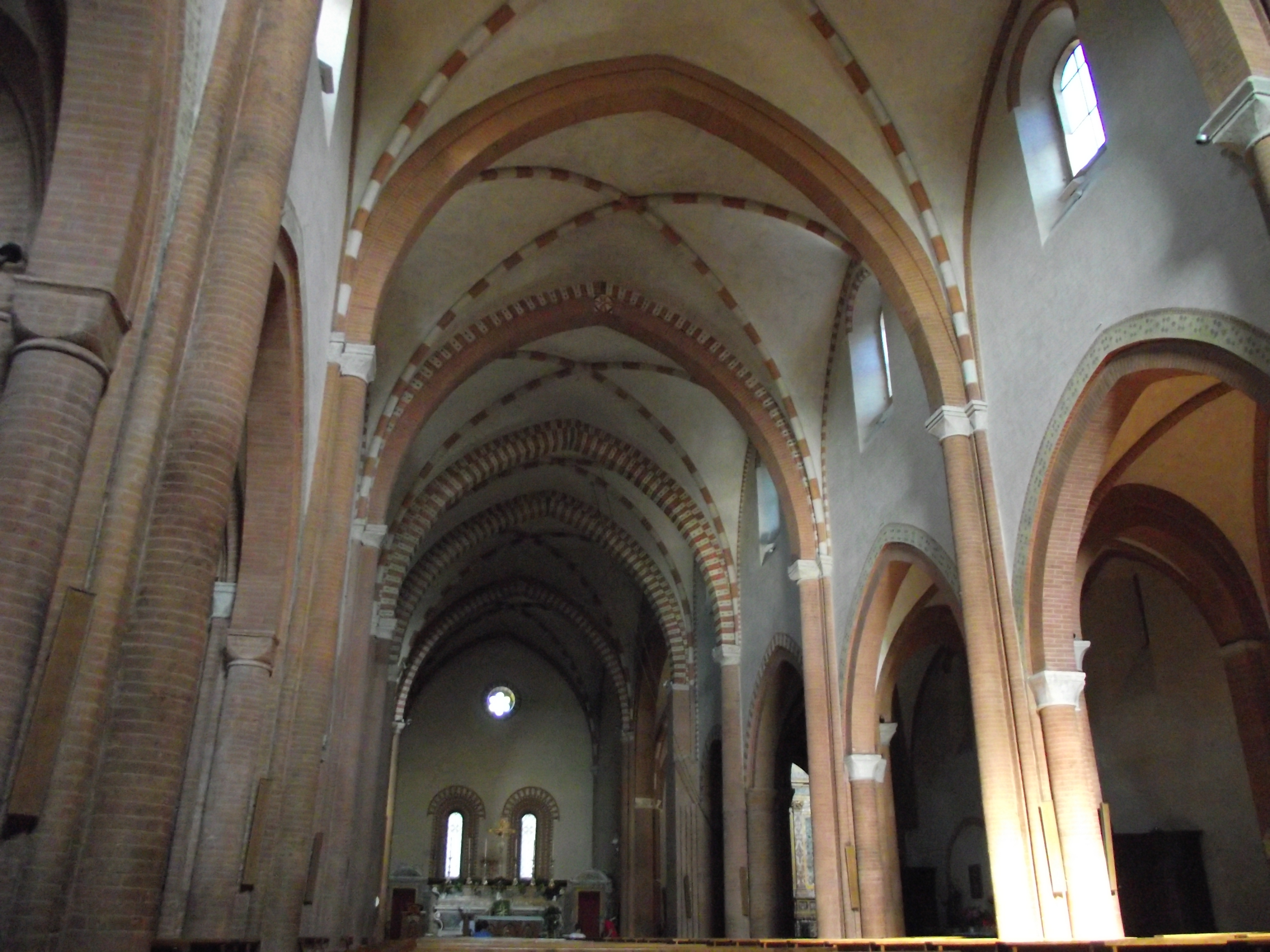 St. Mary's cistercian Abbey, XII century, Chiaravalle – Italy